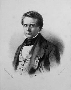 Lithographie signée de Charles François Woirhaye (1798-1878)Lithographie extraite de l'ouvrage"Assemblée nationale Constituante - 1848 - Portraits - Galerie des Représentants du peuple"(y320) ; lithographie d'après nature par différents artistes mentionnés sur l'oeuvre. Imp. Lemercier à Paris - Maison Basset, 33 rue de Seine, Paris Goupil Vibert&Cie, 15 bd Montmartre.Député de la Moselle de 1848 à 1849